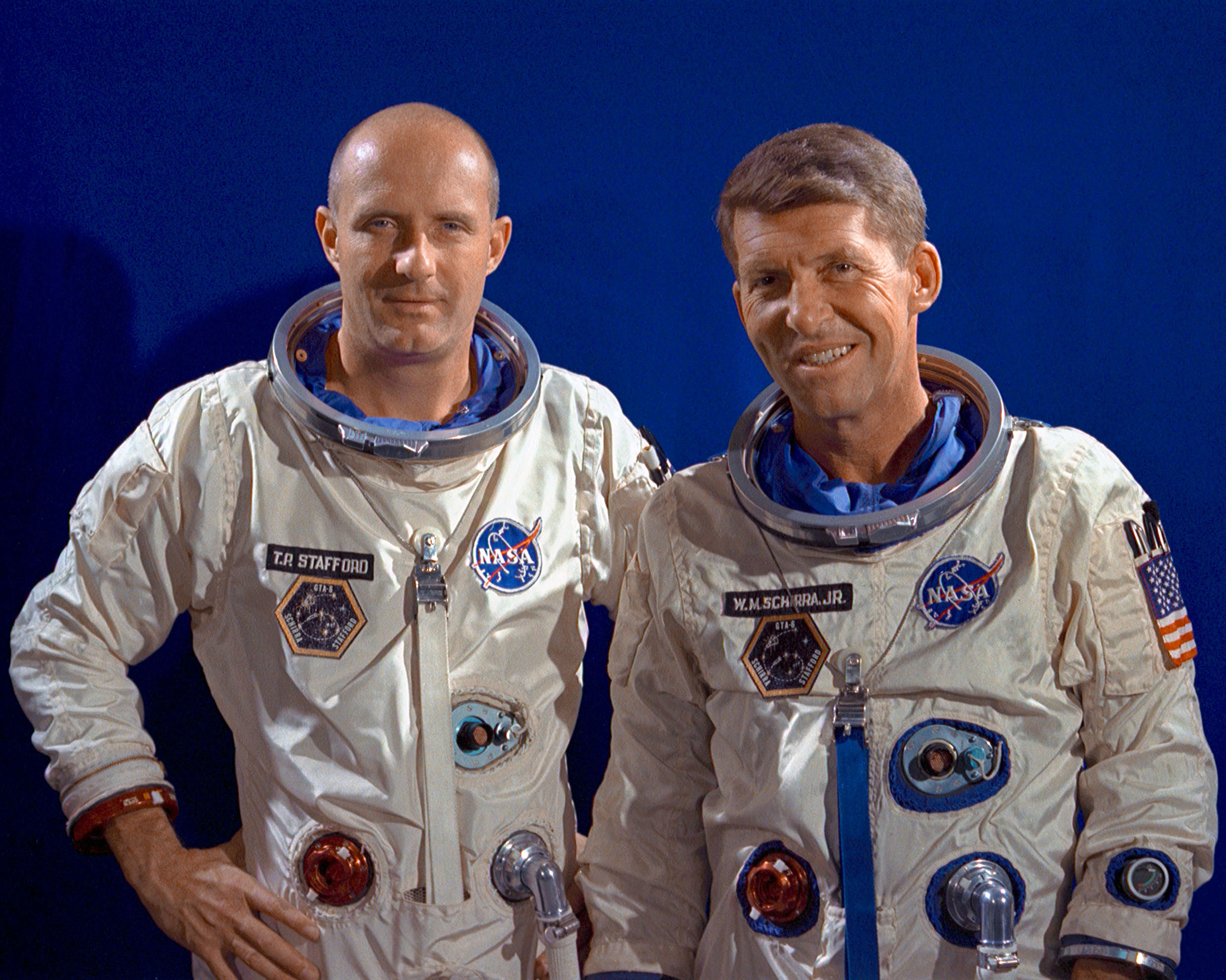 Astronauts Thomas P. Stafford (left), pilot, and Walter M. Schirra Jr., command pilot, pose during a suiting up exercise in preparation for the National Aeronautics and Space Administration's Gemini-6 two-day mission. Image ID: S65-56188